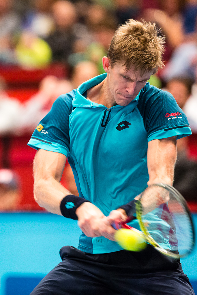 Kevin Anderson (RSA) versus Guillermo Garcia-Lopez (ESP) in the first round of the ATP Erste-Bank-Open 500 in the 'Wiener Stadthalle', Vienna, Austria